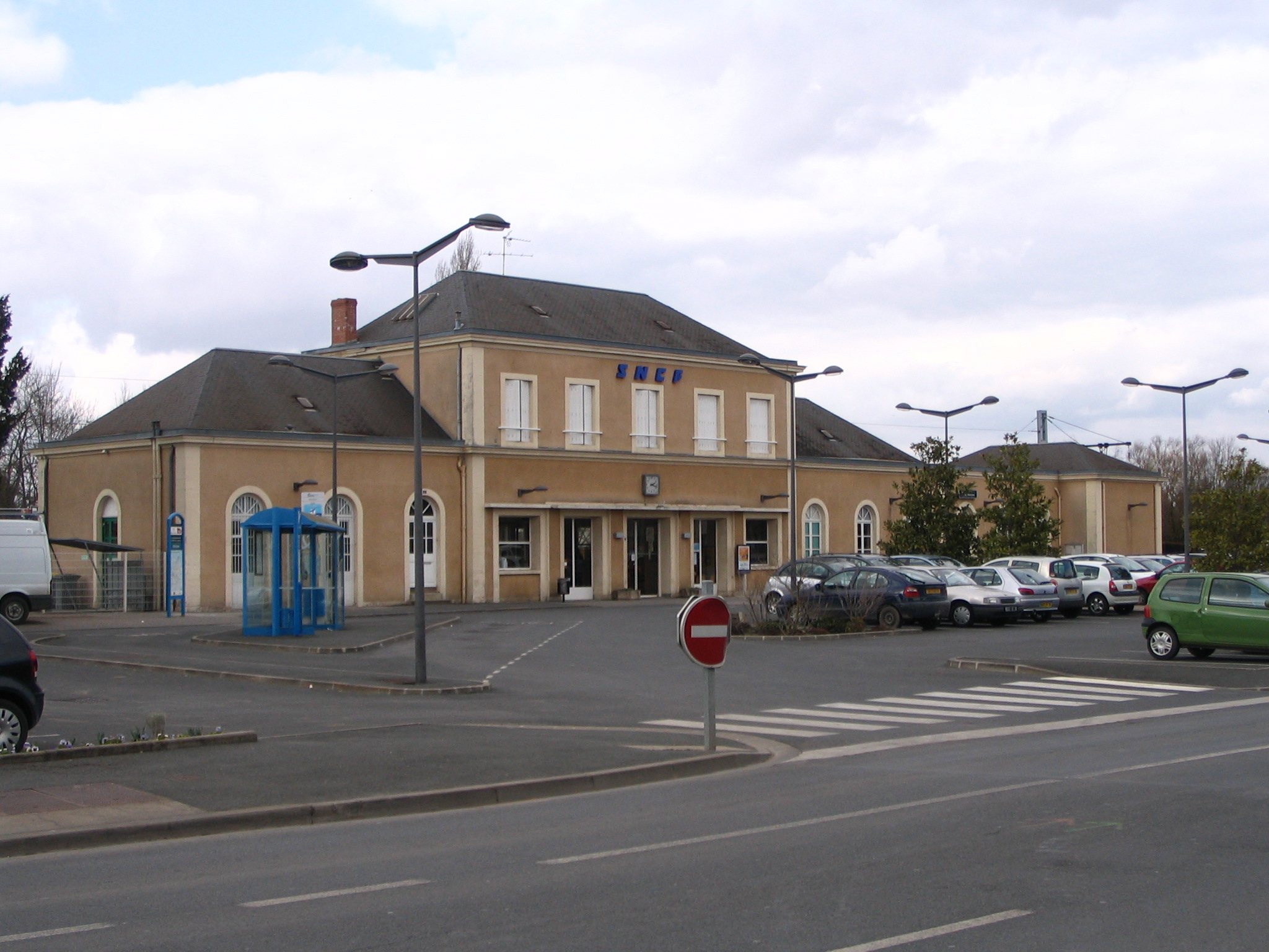 The train station of Issoudun, Indre, France.